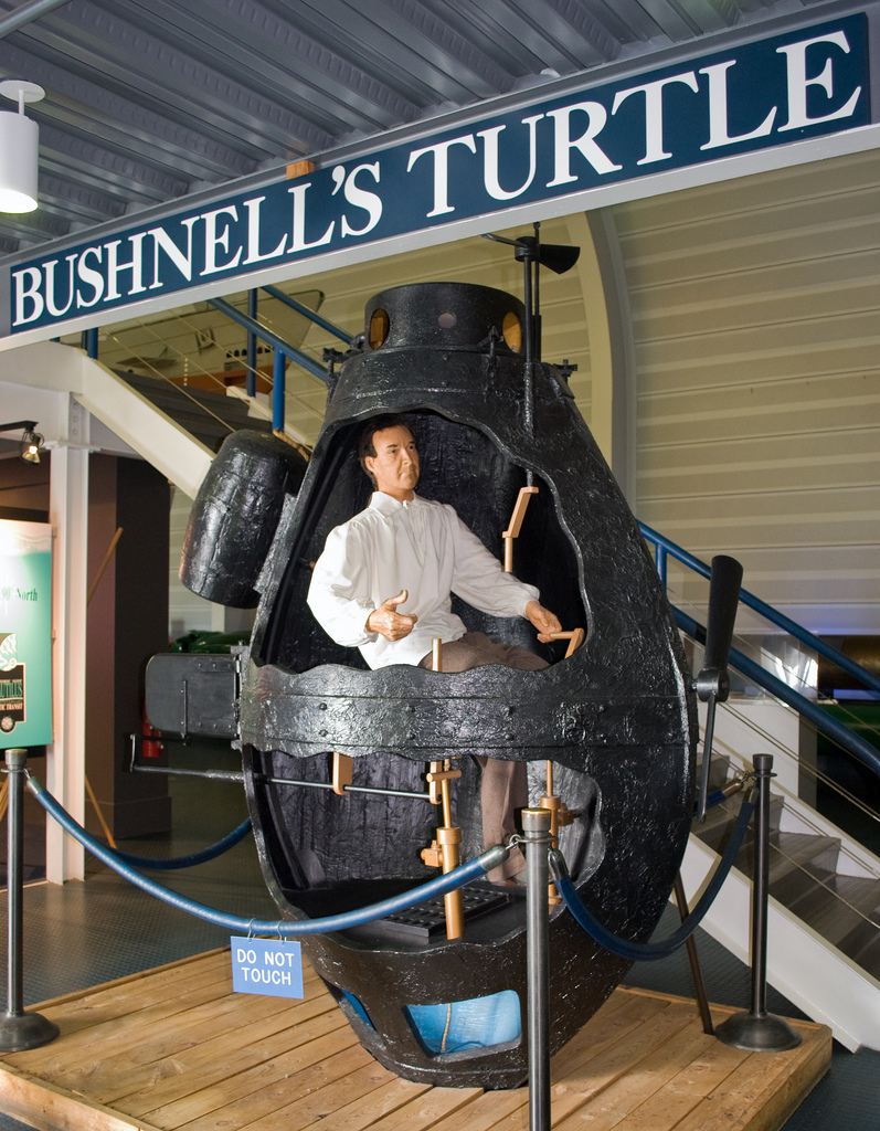 Fullsized mockup of the Bushnell "Turtle", the world's first military submarine used in action, at the U.S. Navy Submarine Force Museum and Library, Groton CT.